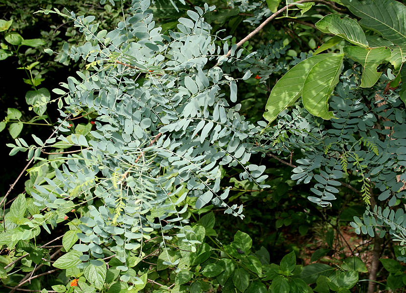 Chloroxylon swietenia (syn. Swietenia chloroxylon)- Ceylon Satinwood, East Indian Satinwood, Buruta • Hindi: Bhirra, Bhivia, Dhoura, Girya • Marathi: Behru, Halda, Bheria, Hulda • Tamil: Vaaimaram or porasu, Mammarai, Porinja maram • Malayalam: വരിമരമ് Varimaram • Telugu: billu, billydu, billudu, bella • Kannada: bittulla, huragalu, hurihuli, masula • Oriya: bheru gatcho • Sanskrit: bhillotaka, bimbilota- in Narsapur, Medak district, Andhra Pradesh, India.